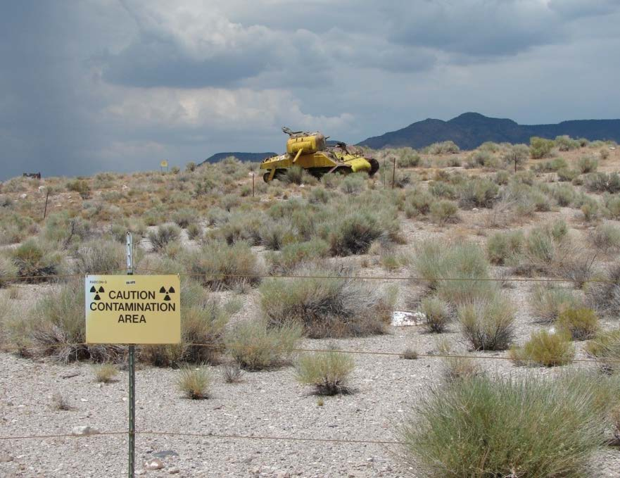 Nevada Test Site Little Feller I test location.